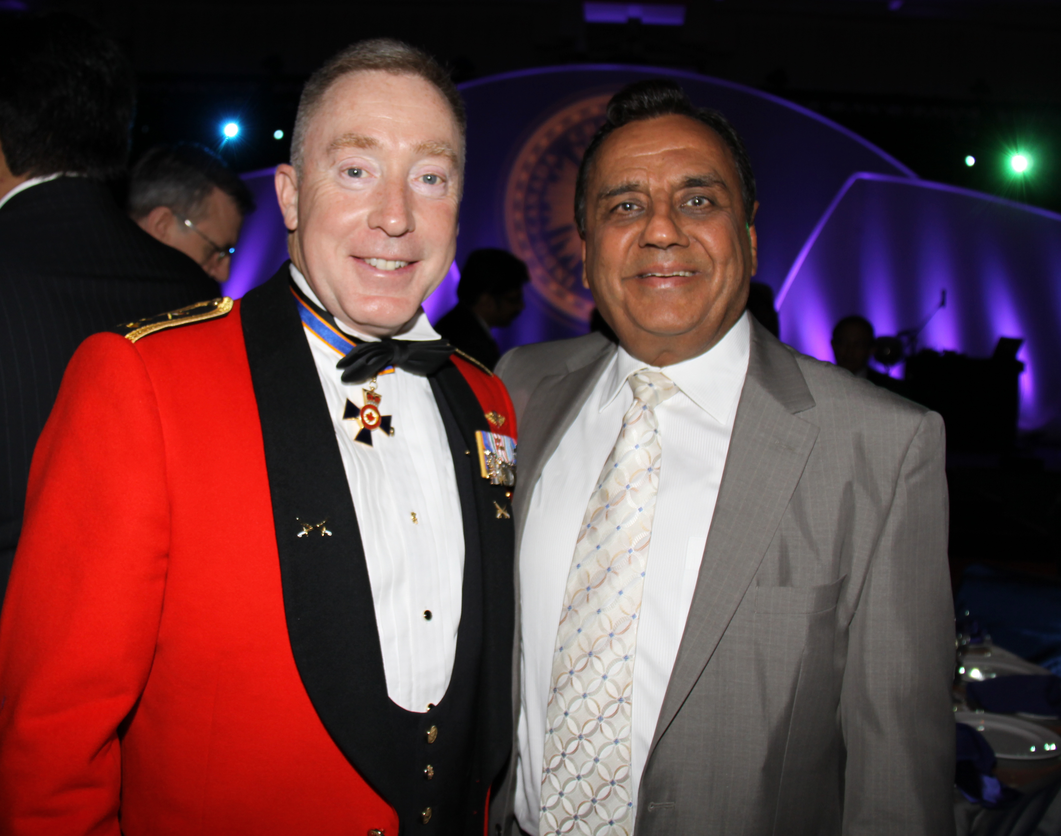 Kacee Vasudeva and Lieutenant General Peter Devlin, CMM, MSC, CD